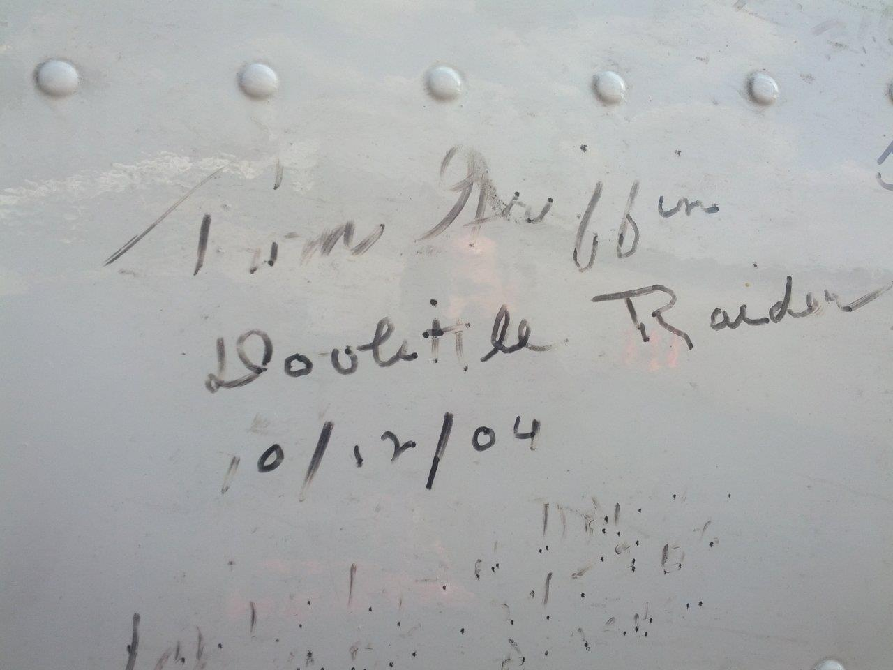 Maj. Thomas Griffin served as the navigator on aircraft #9 of the Doolittle Raid. This is an image of his signature on the fuselage of the B-25 (45-8898) flying as "Axis Nightmare."